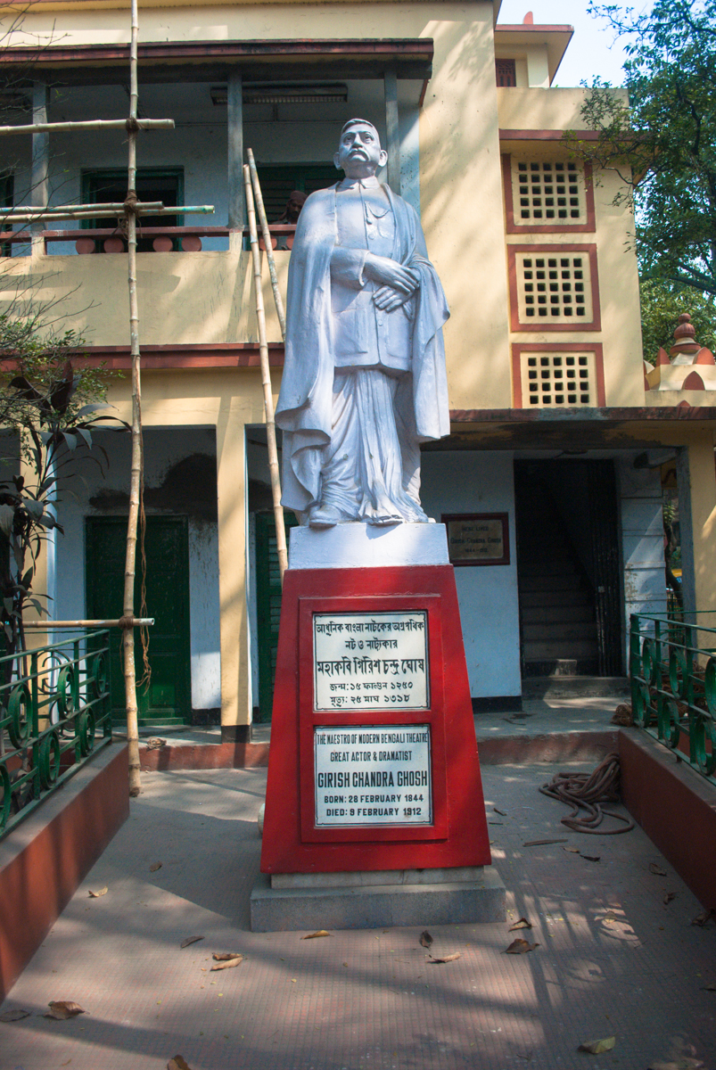 House of Girish Ghosh